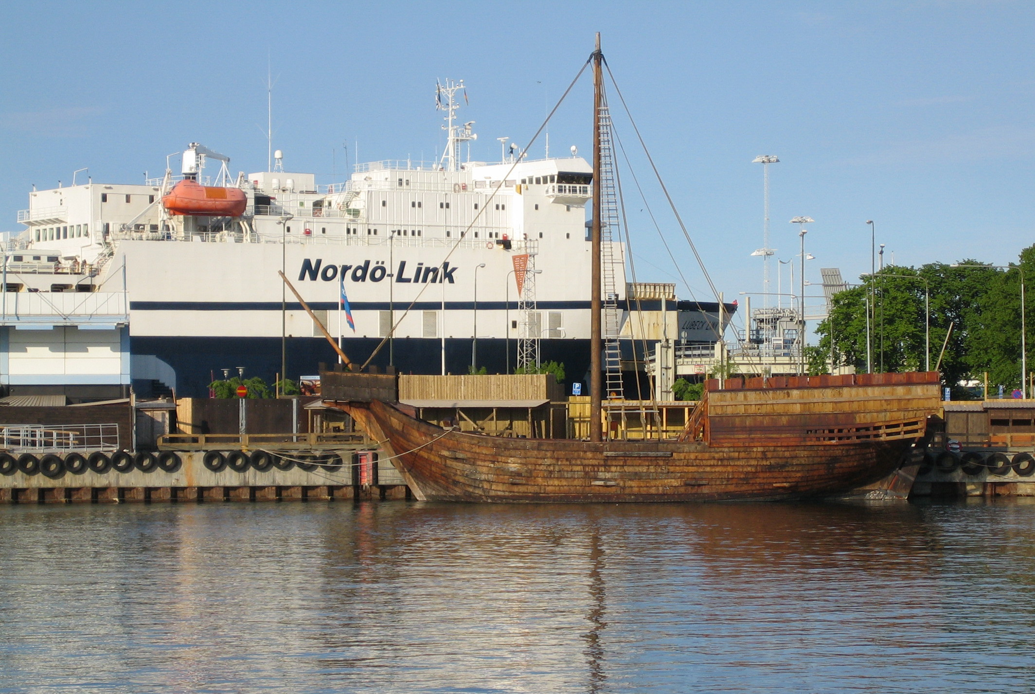 Cog and ferry in Malmö harbour, Sweden.